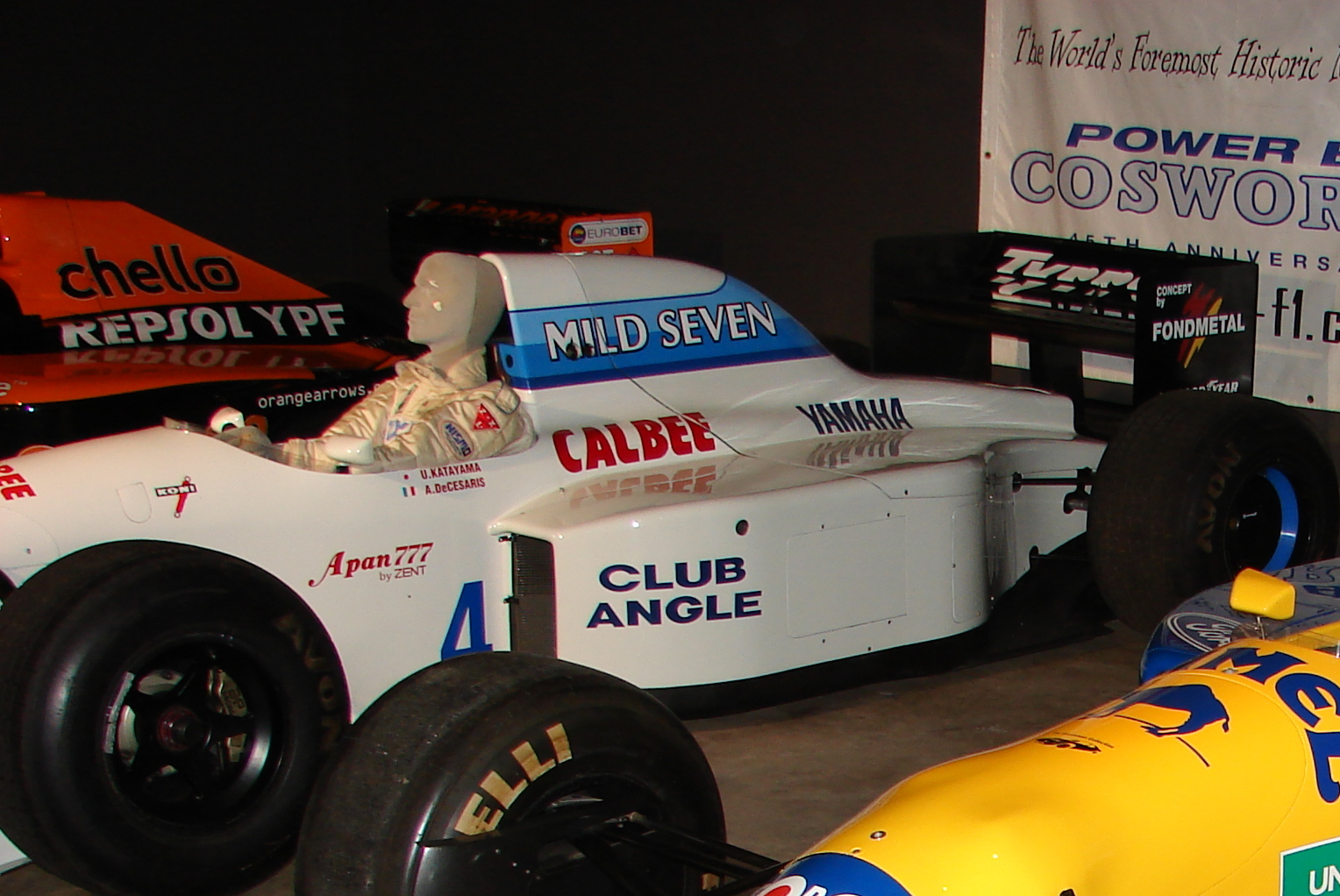 Tyrrell 021, Formula One car driven by Andrea de Cesaris and Ukyo Katayama during the 1993 season.